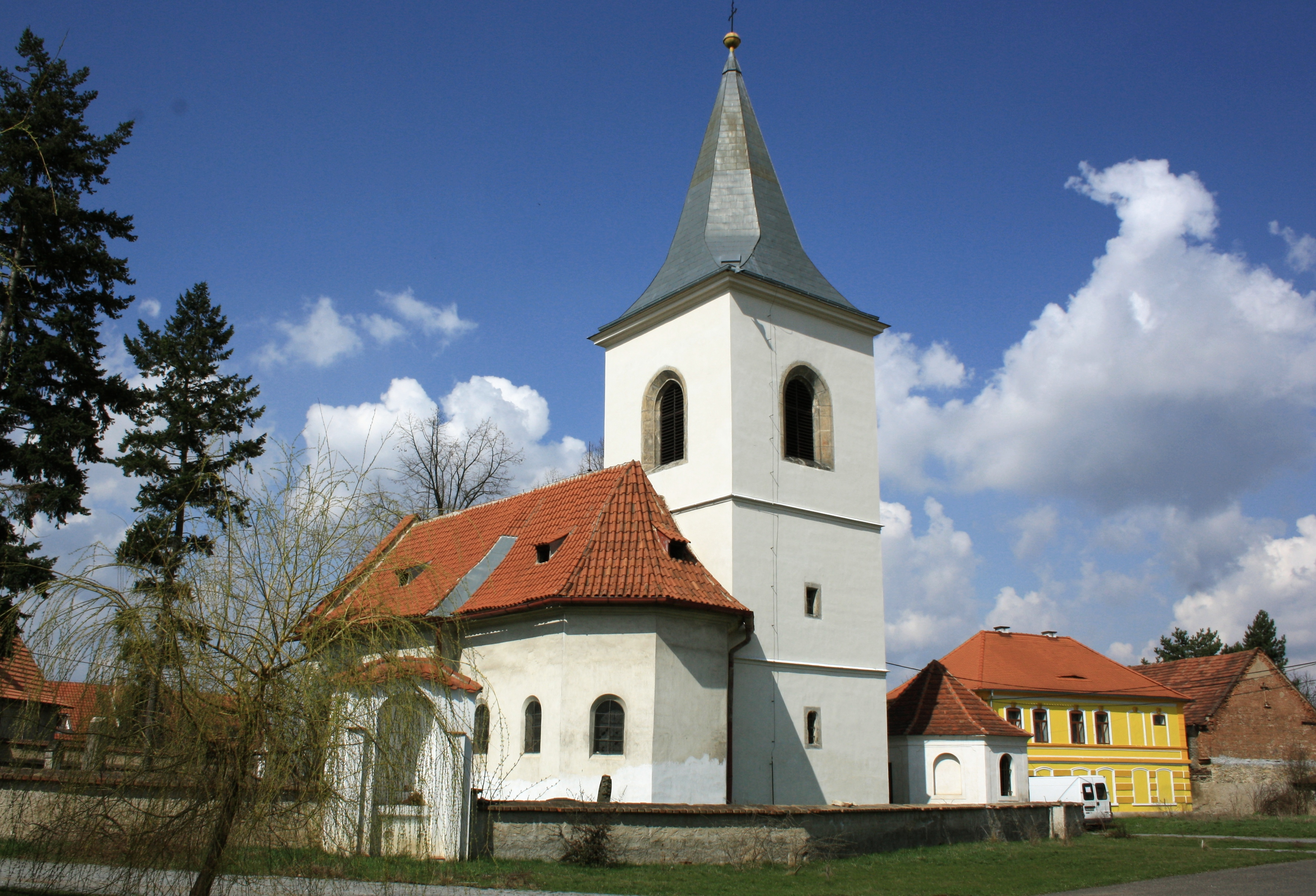 A church in Vrbno village (part of the town of Hořín), Mělník District. Central Bohemian Region, CZ